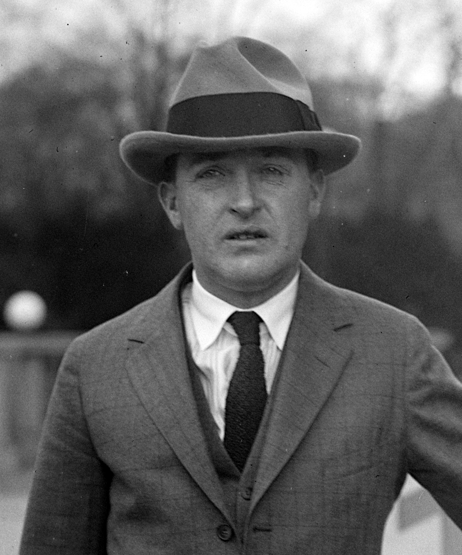 Thomas A. Doyle, US Representative from Illinois